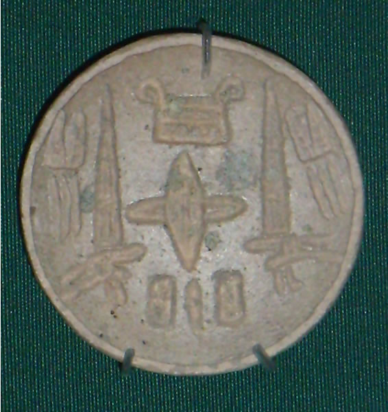 Seal, found at Alalakh, with Luwian hieroglyphs, owner is Palawa, landlord and son of the king, British Museum WA 130647